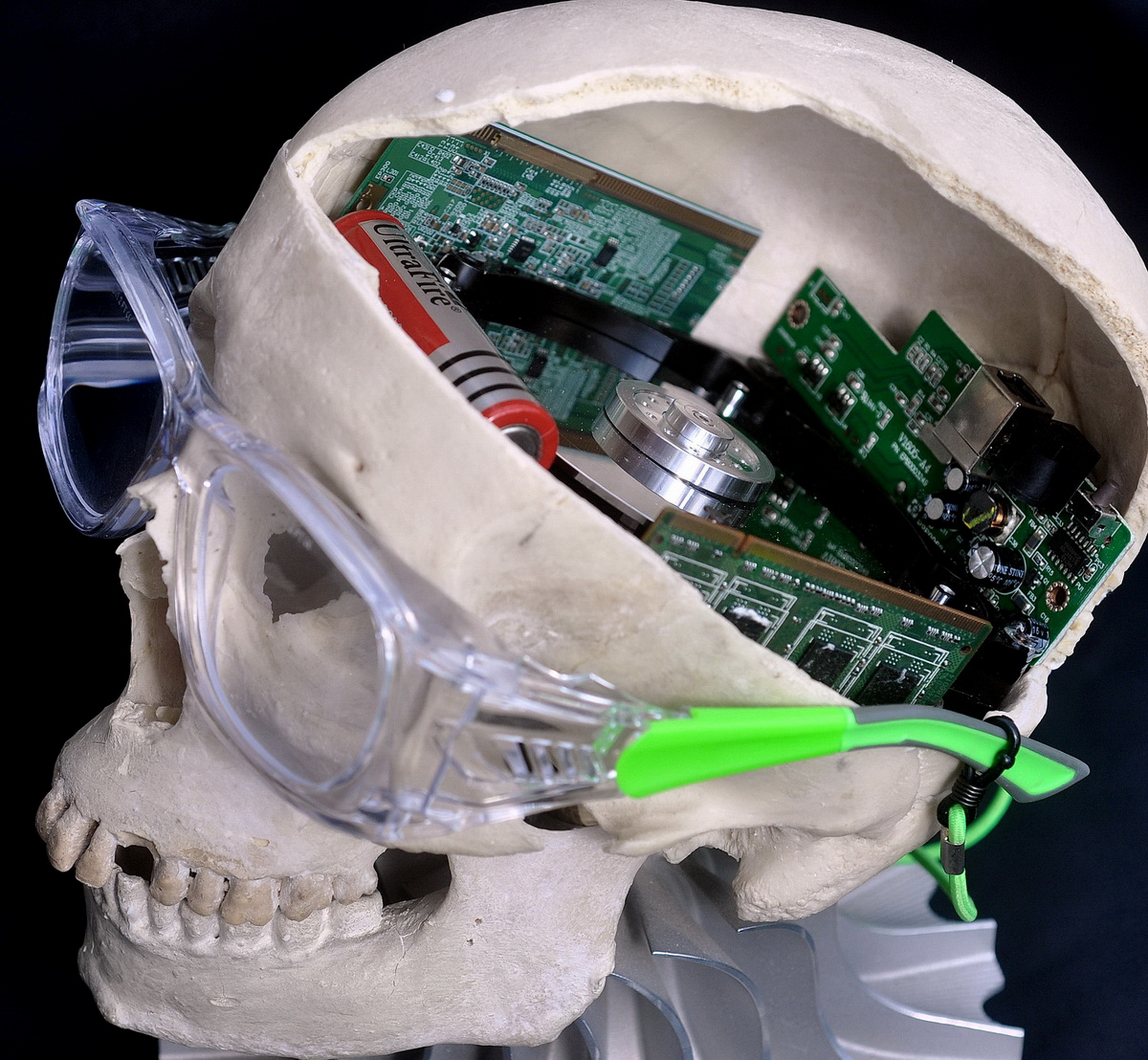 human brain anatomy in robotics